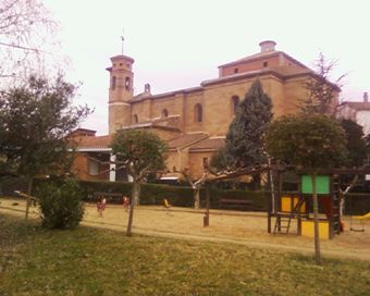 zbf